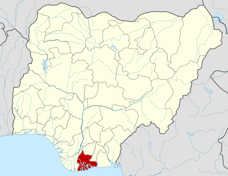 Map locator of Nigeria.